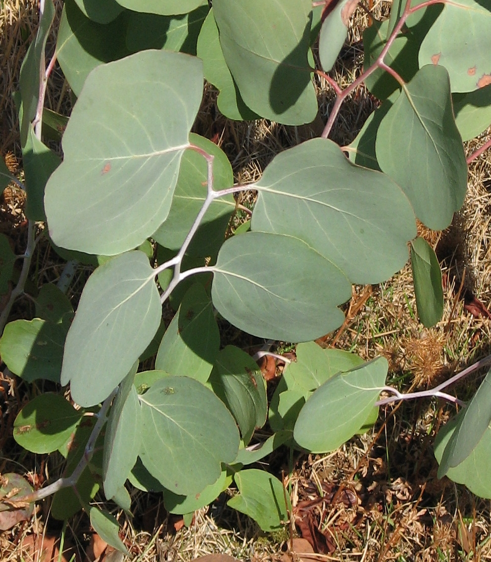 Juvenile foliage of Eucalyptus polyanthemos subsp. vestita, Christmas Hills, Victoria, Australia